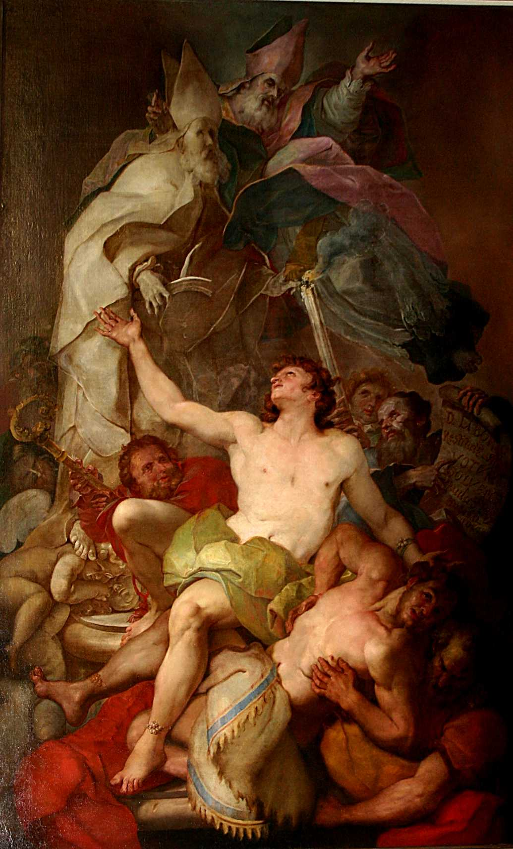 Paolo Pagani, Saint Liborius heals a sick man (ex voto) [1712]. Painting in Saint Augustine chapel, in the right hand transept of Saint Mark church in Milan